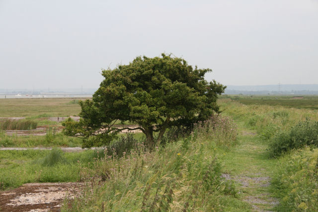 Saxon Shore Way footpath alongside The Swale